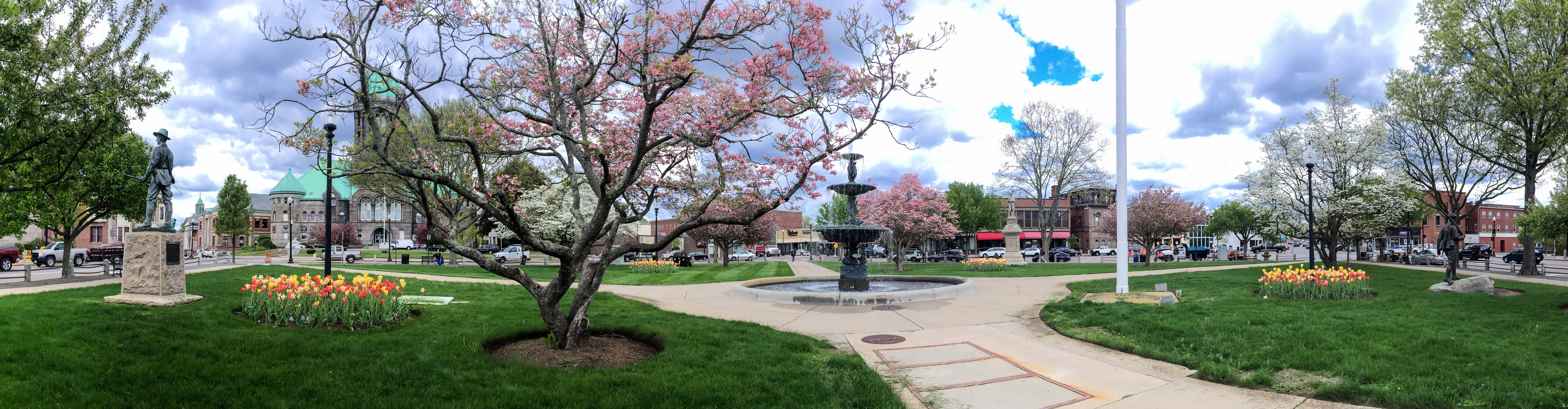 Daffodils and flowering trees brighten Taunton Green (Massachusetts) on a spring day. iPhone panorama.